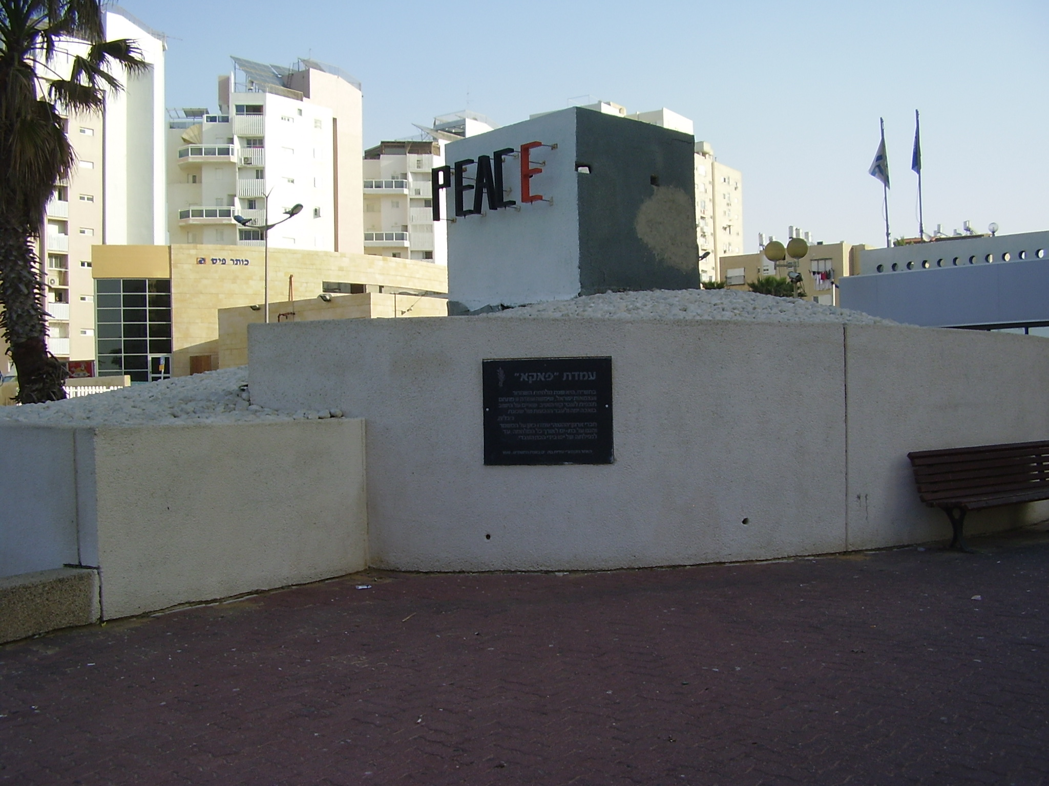 paka post in bat yam